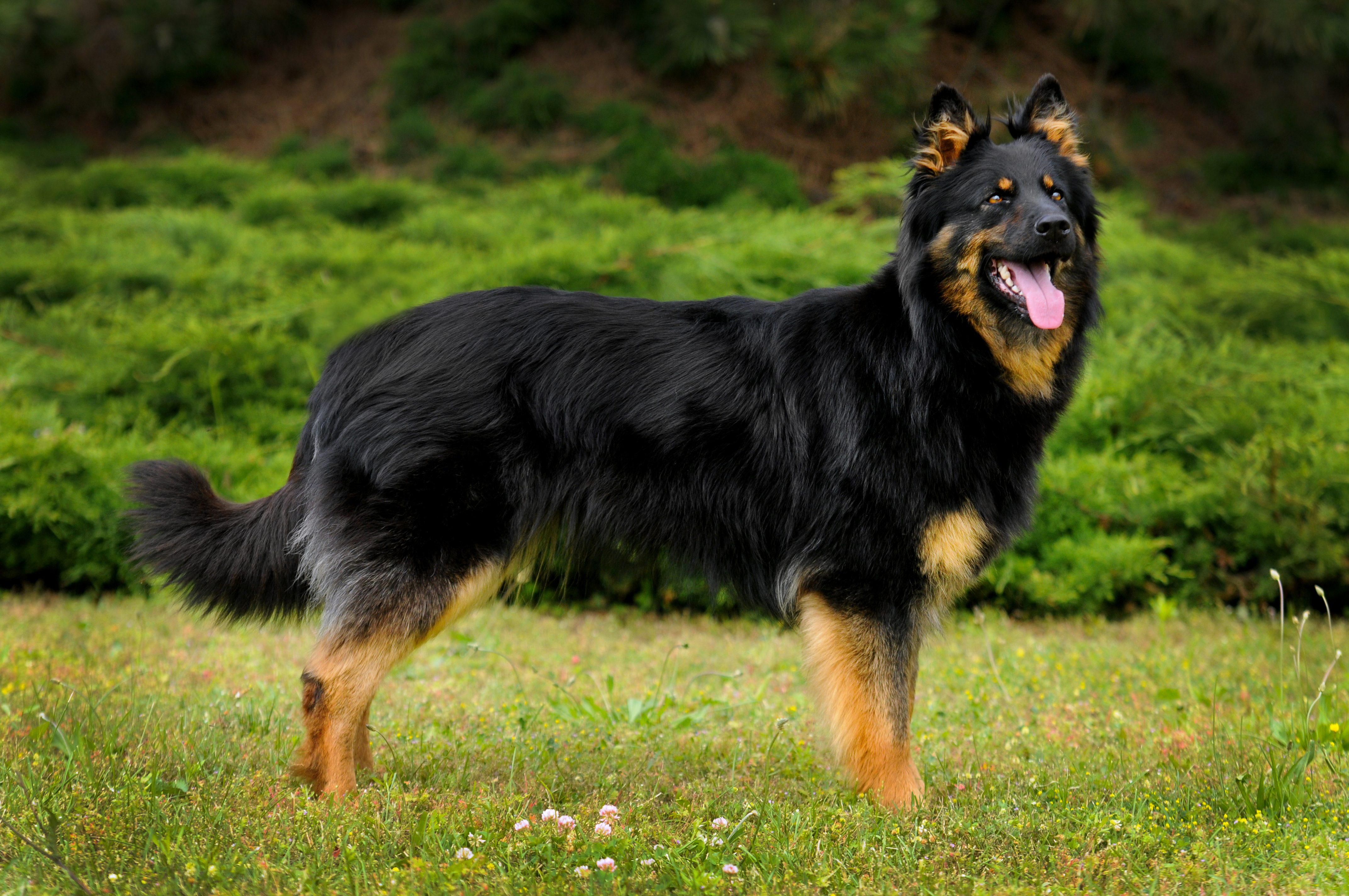 CHODSKÝ PES - AUTOR KATKA KOLLÁROVÁ